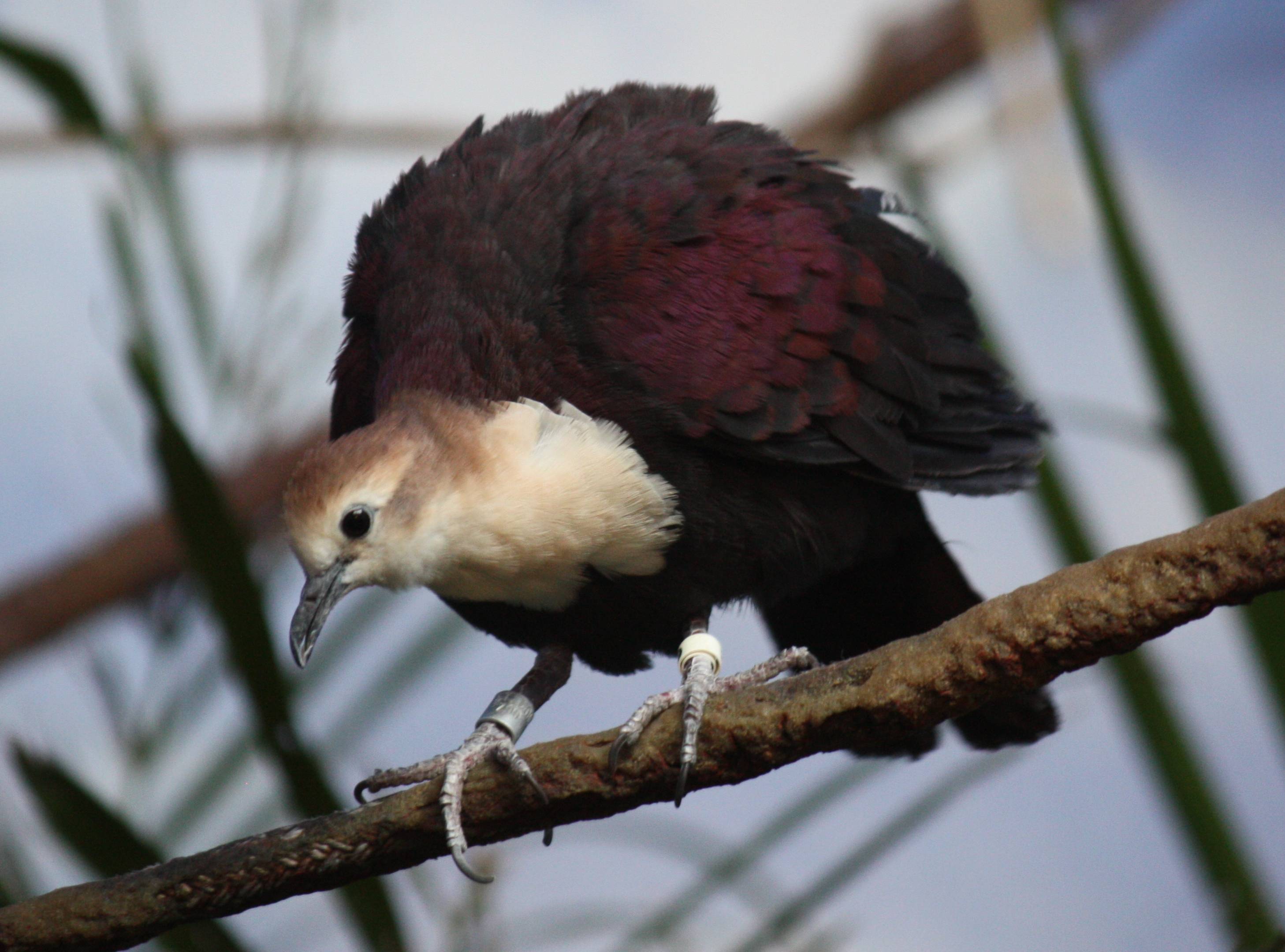 White-throated Ground Dove (Male) Gallicolumba xanthonura at the Louisville Zoo